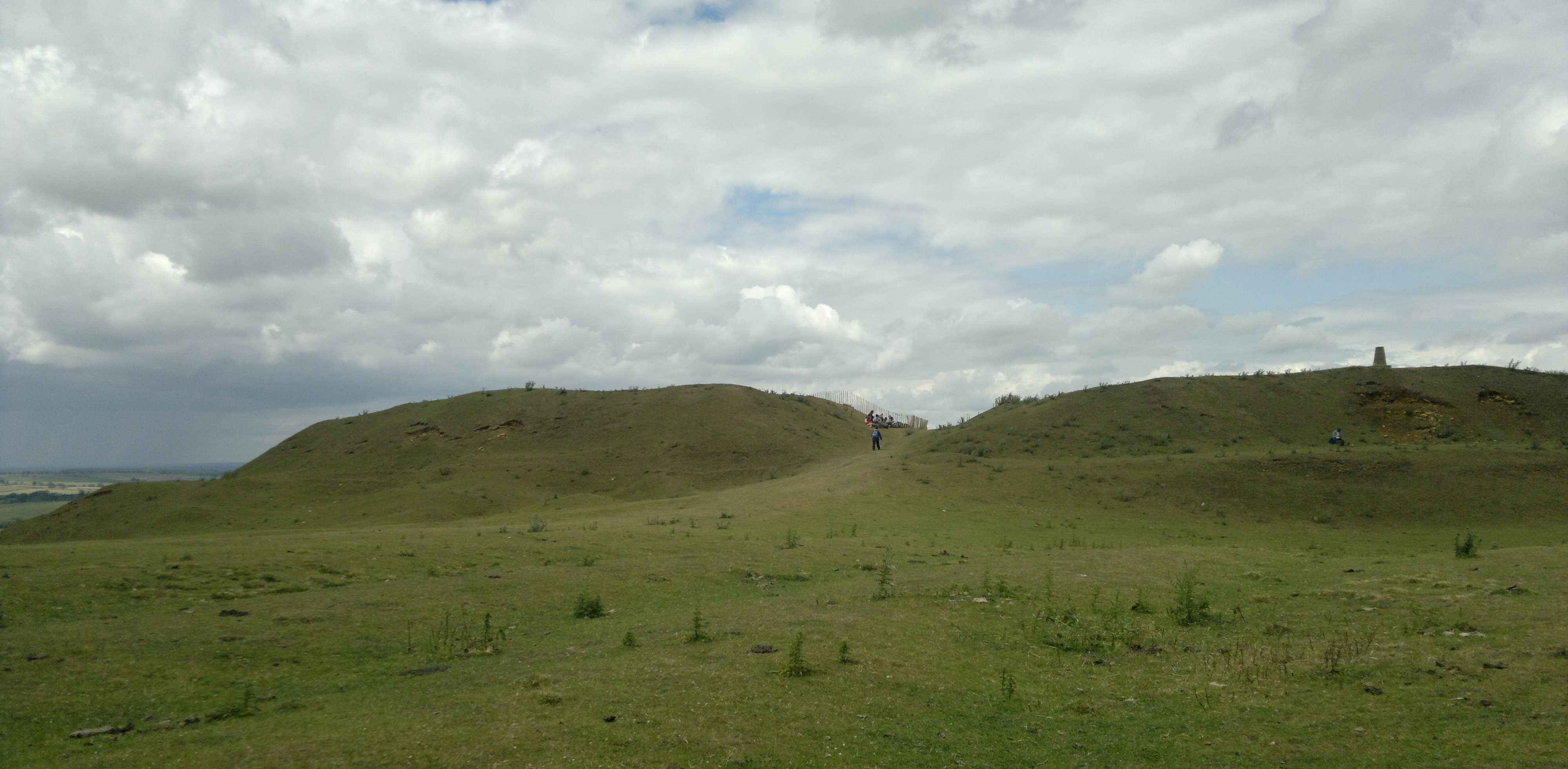 Atlas of Hillforts 1000 Excavations on the gateway of Burrough Hill hillfort, carried out in July 2011 by University of Leicester Archaeological Services with permission from English Heritage.